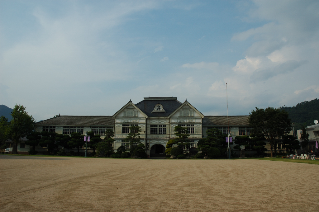 Old school building of Senkyō Elmentary School(Japan's national important cultural property) built in 1907. Nabeya, Maniwa City, Okayama, Japan.